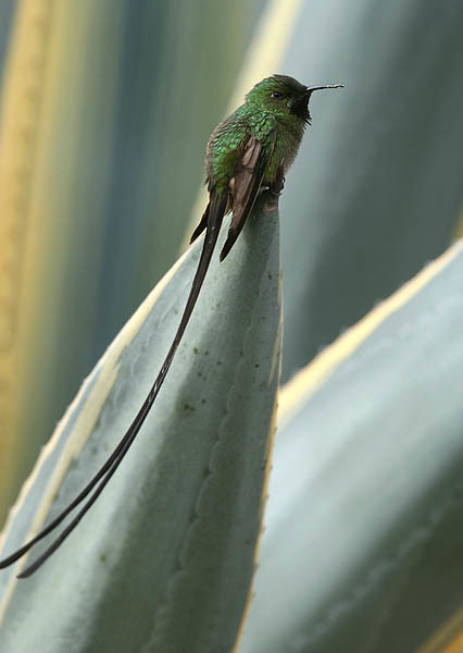 A Black-tailed Trainbearer (Lesbia victoriae). A male at Mitad del Mundo, N of Quito, Ecuador, 3/20/2007.